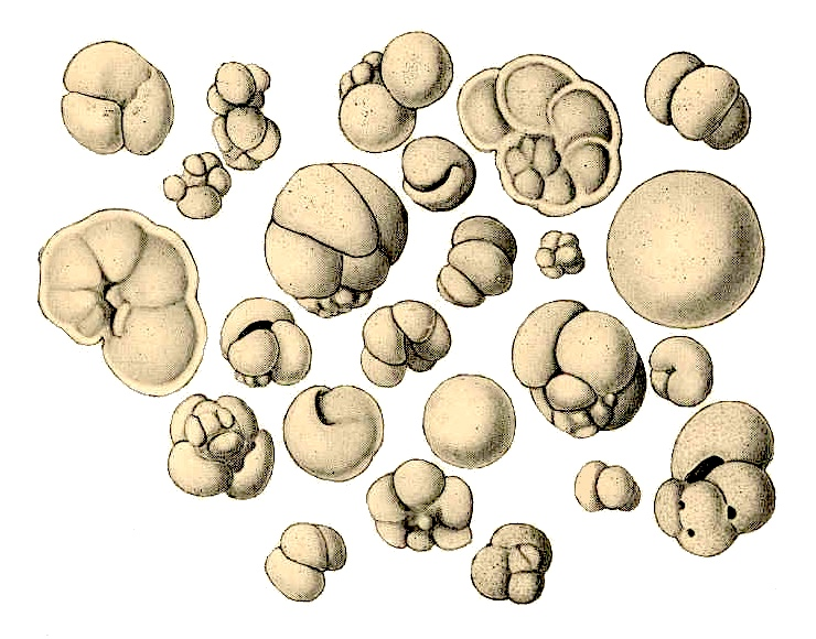 Shells from Globigerina Ooze Shells from foraminiferal ooze, brought up in the sounding-tube from a depth of about 1100 fathoms, in the vicinity of the Laccadives; enlarged about forty times. In the natural state the shells cohere together; but those here shown--which consist chiefly of Globigerina, with a few Pulvinulina and Orbulina--have been separated by repeated washing and careful drying Subject: Foraminifera, Globigerinidae, Globorotalia Tag: Invertebrates